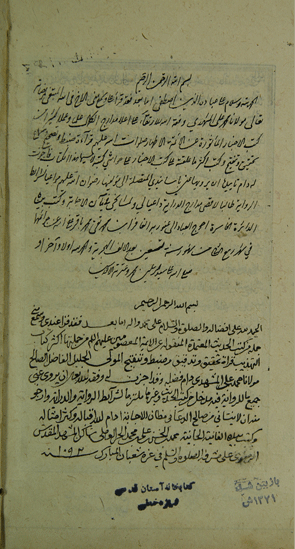 Manuscrit by Allamah Majlisi in Tahizib Al-Ahkam دستخط علامه محمد باقر مجلسی، خط مربوط به قرن 11هجری قمری در كتاب تهذيب احكام